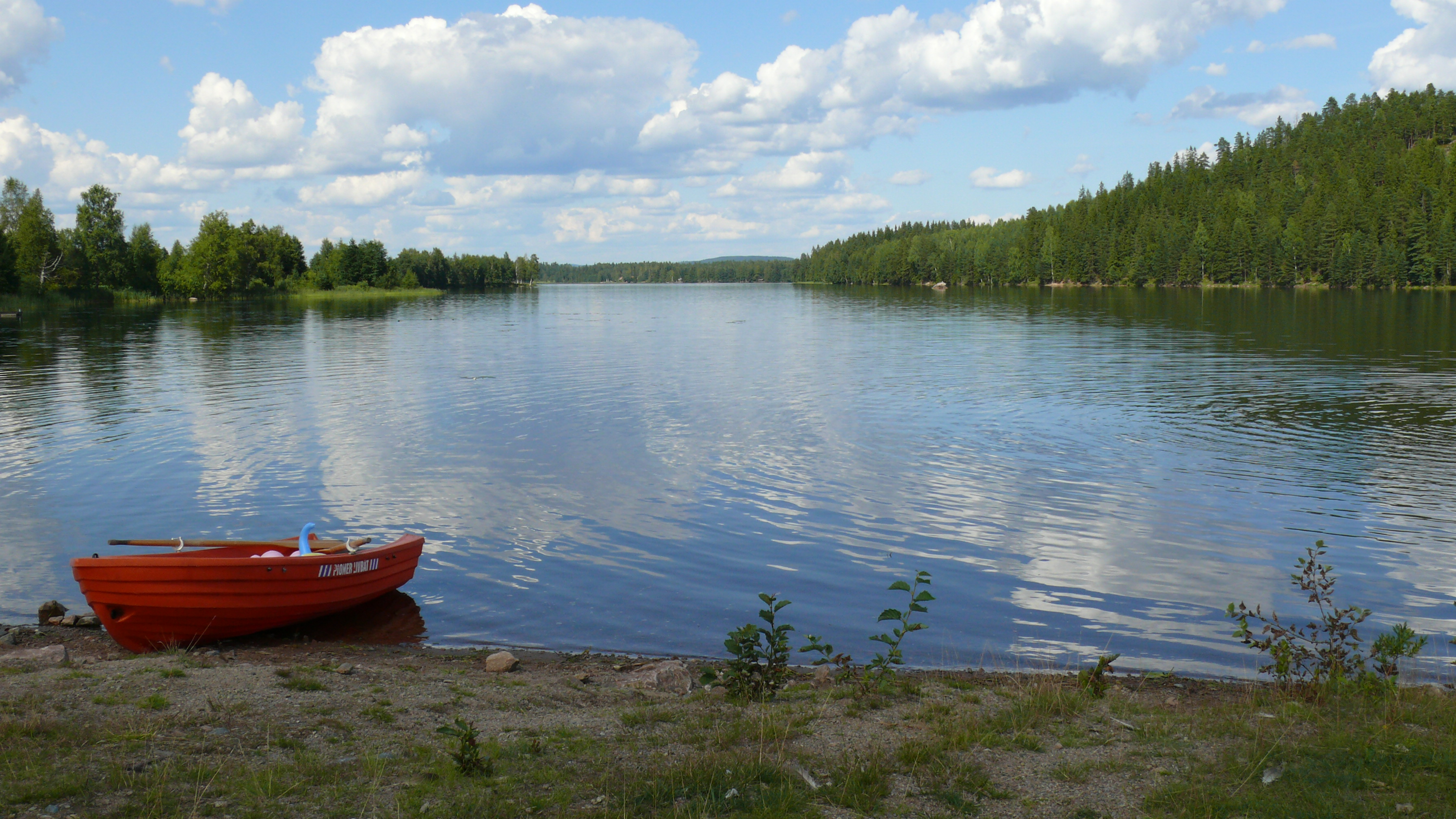 Lake Saxen near Saxdalen, Sweden